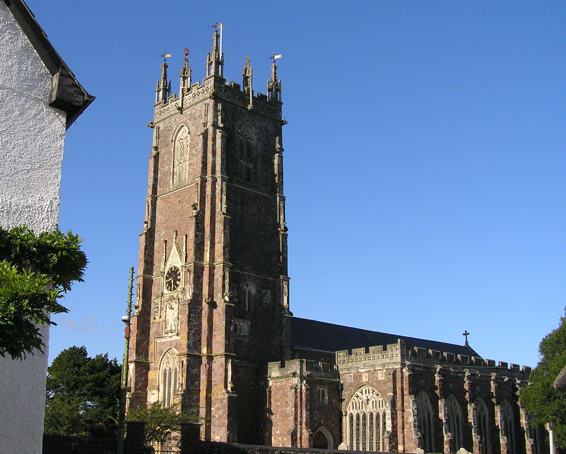 St Andrew's Church in Cullompton, Devon, United Kingdom.